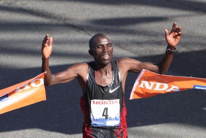 31-year-old Kenyan Simon Njoroge breaks the tape at the 2012 Honda LA Marathon. Related photo post: 2012 Los Angeles Marathon Winner Photos